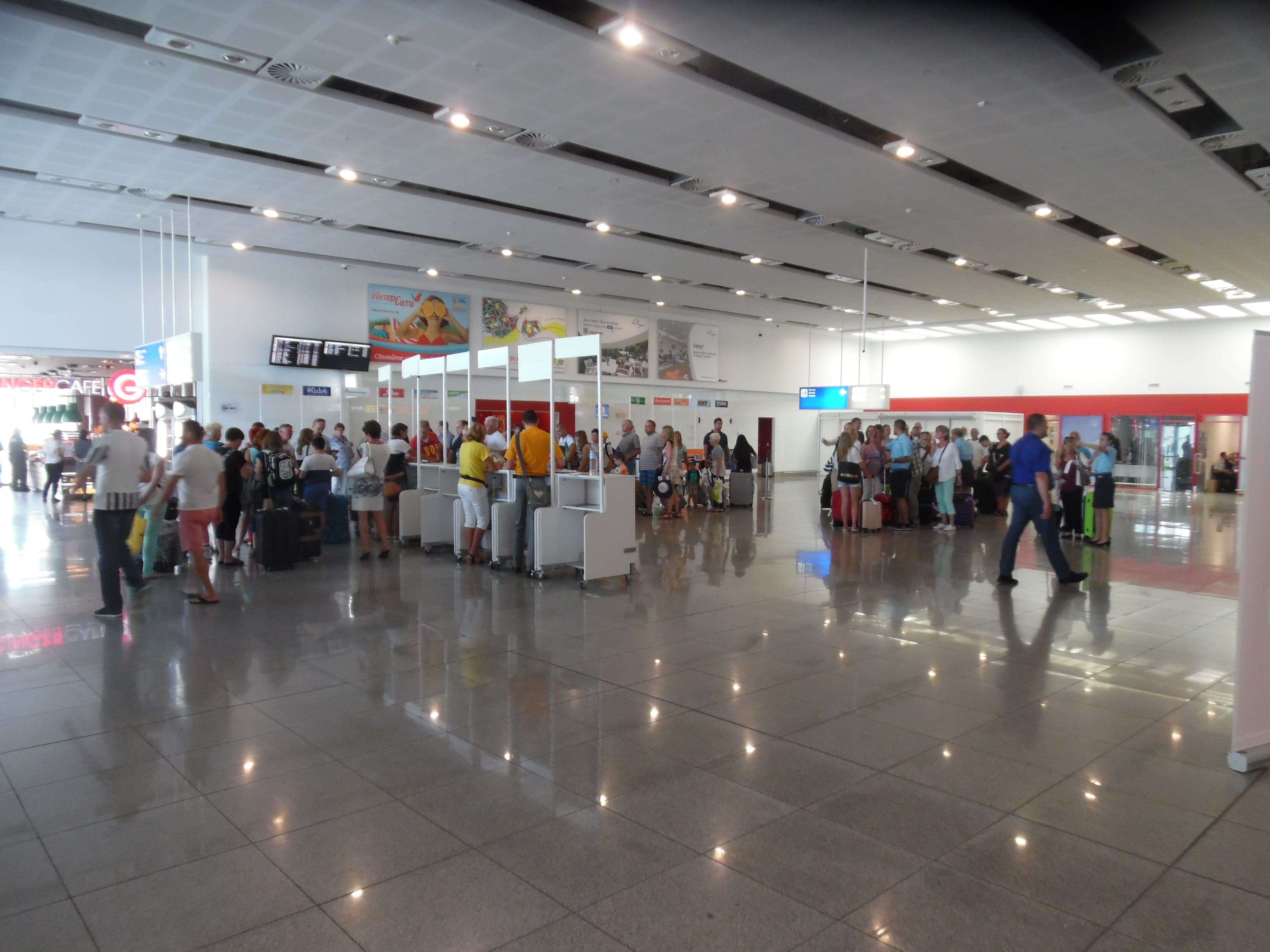 Burgas Airport, the hall of arrive, july 2016